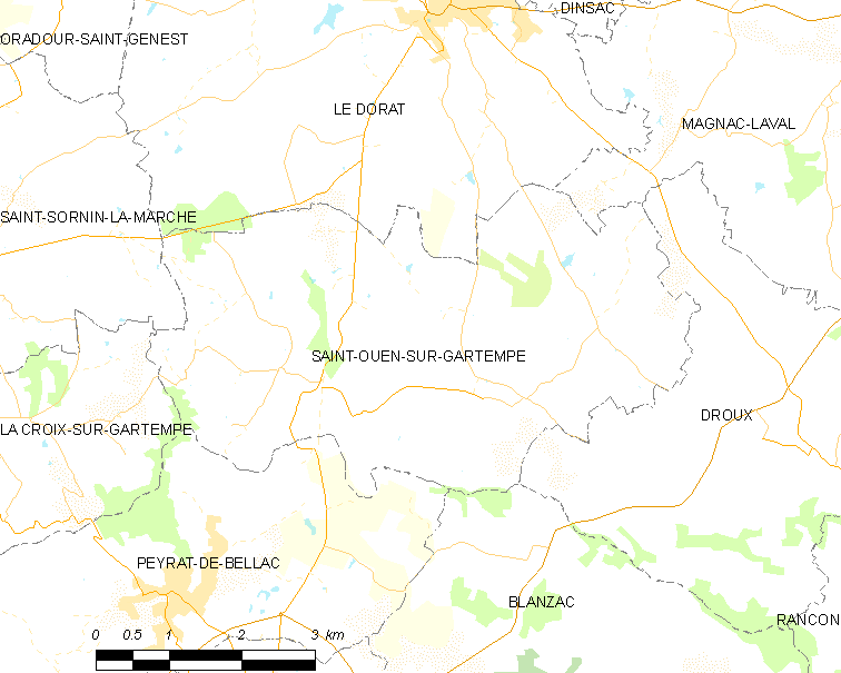 Map of French municipality Saint-Ouen-sur-Gartempe